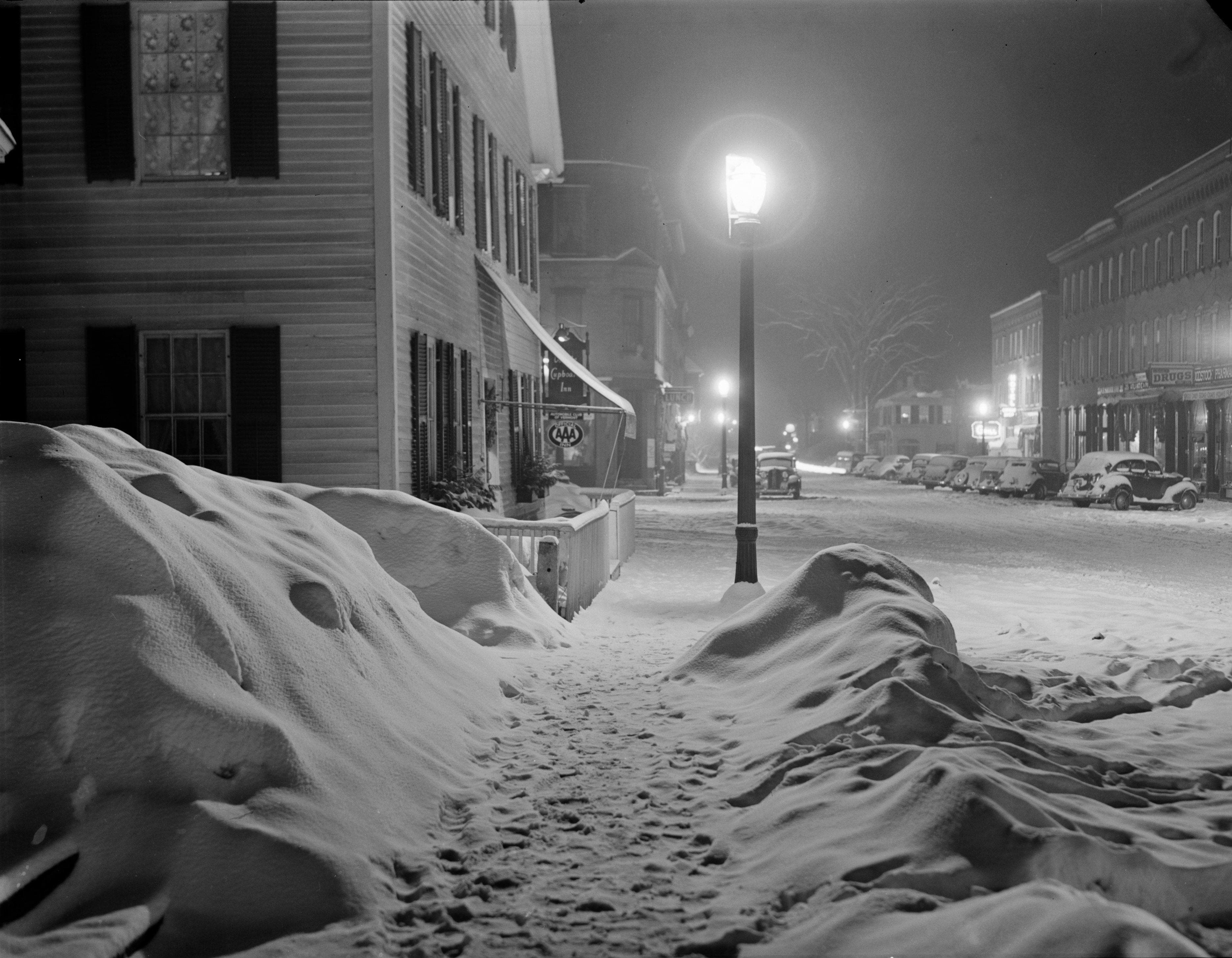 Center of town. Woodstock, Vermont. "Snowy night". MEDIUM: 1 negative : safety ; 3.25 × 3.25 inches or smaller.